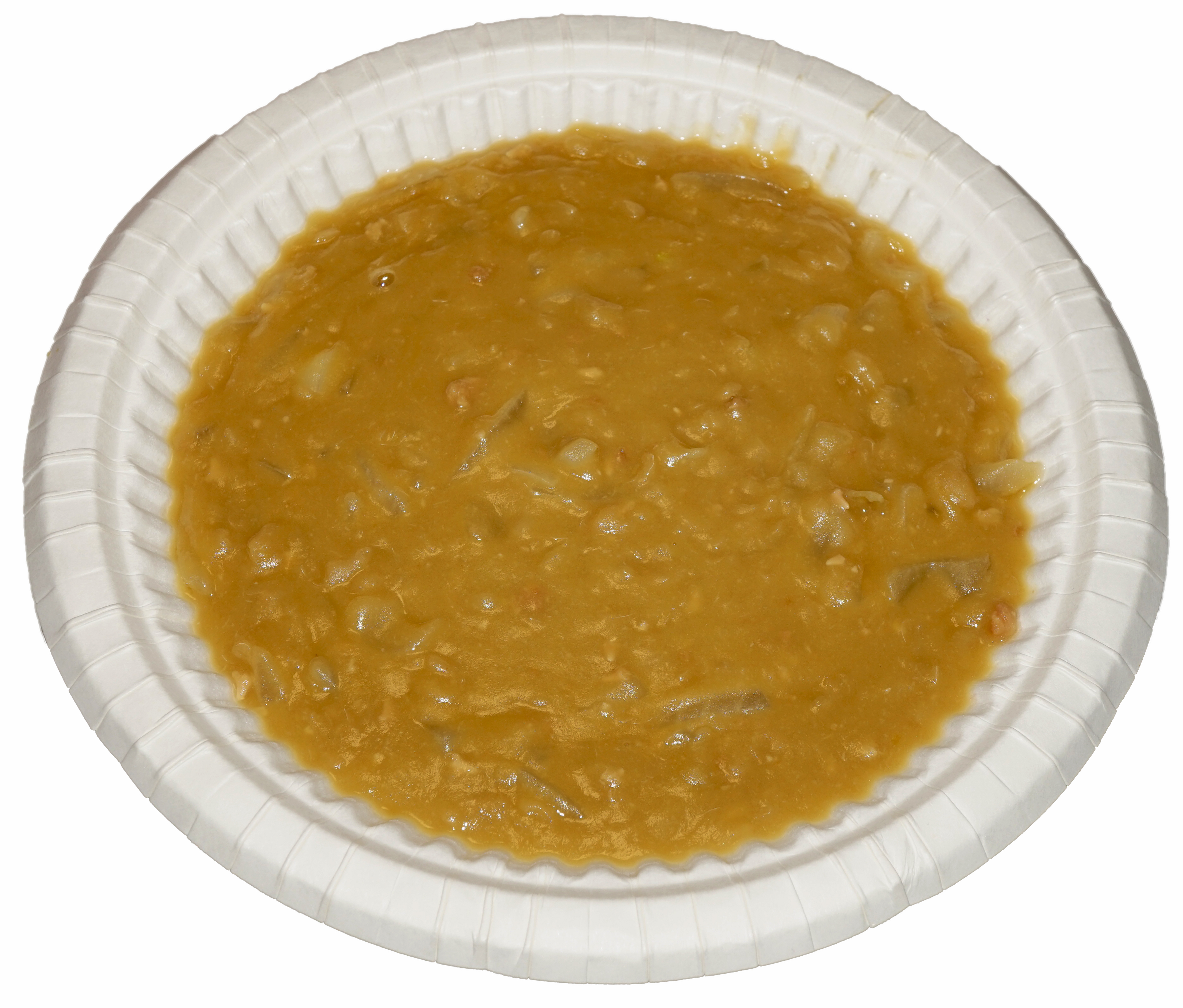 Pea soup with onion.